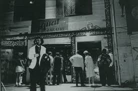 SQUAT THEATRE PETER BERG 23RD STREET Other information: Photo was used as cover of Squat Theater book